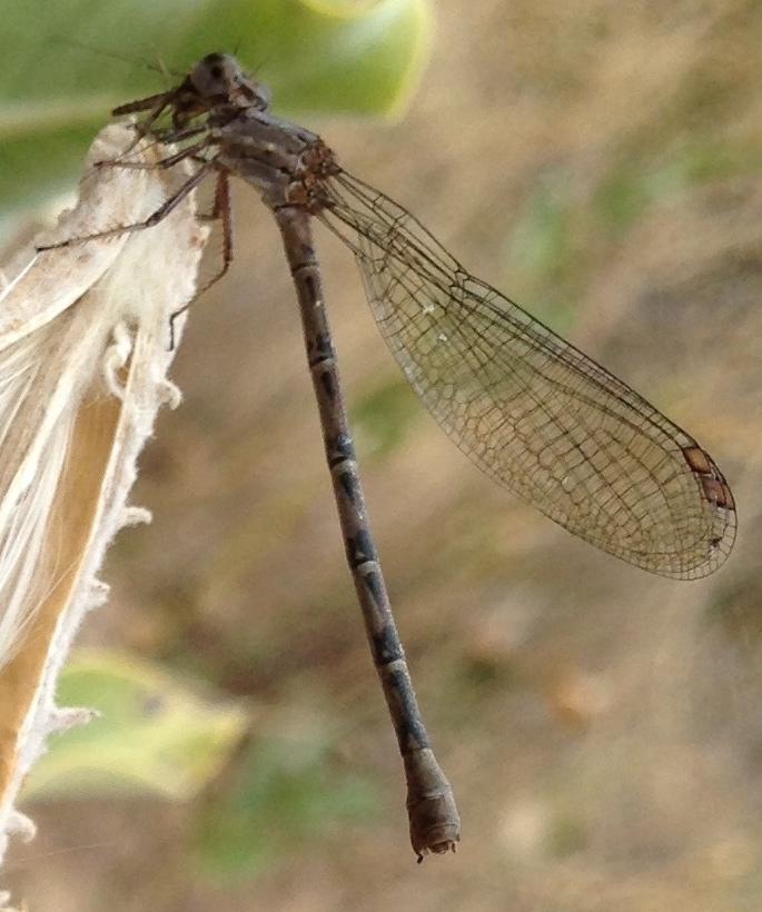 Female Argia lugens in the brown variation sitting atop milk weed in Upper Bidwell Park, Chico California. The tail and wings are in focus but the body is not.